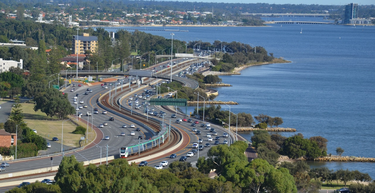 South Perth/Como shore of Swan River, with Kwinana Freeway, Mandurah railway line, with 6 unit train on line heading south towards MAndurah, also Canning Bridge and Mount Henry Bridge in upper right hand corner of photo